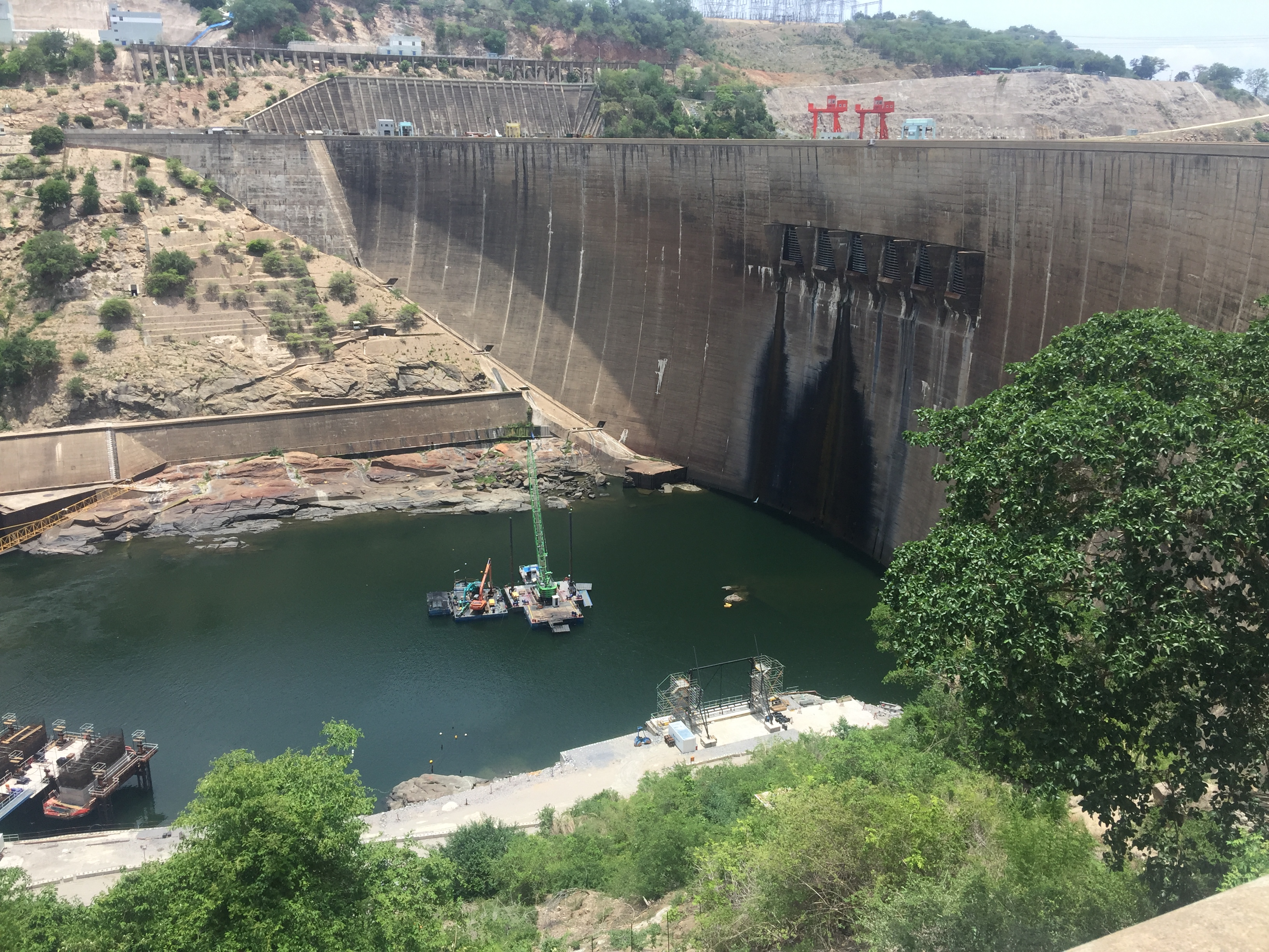 This is an image with the theme "Africa on the Move or Transport" from: Zambia